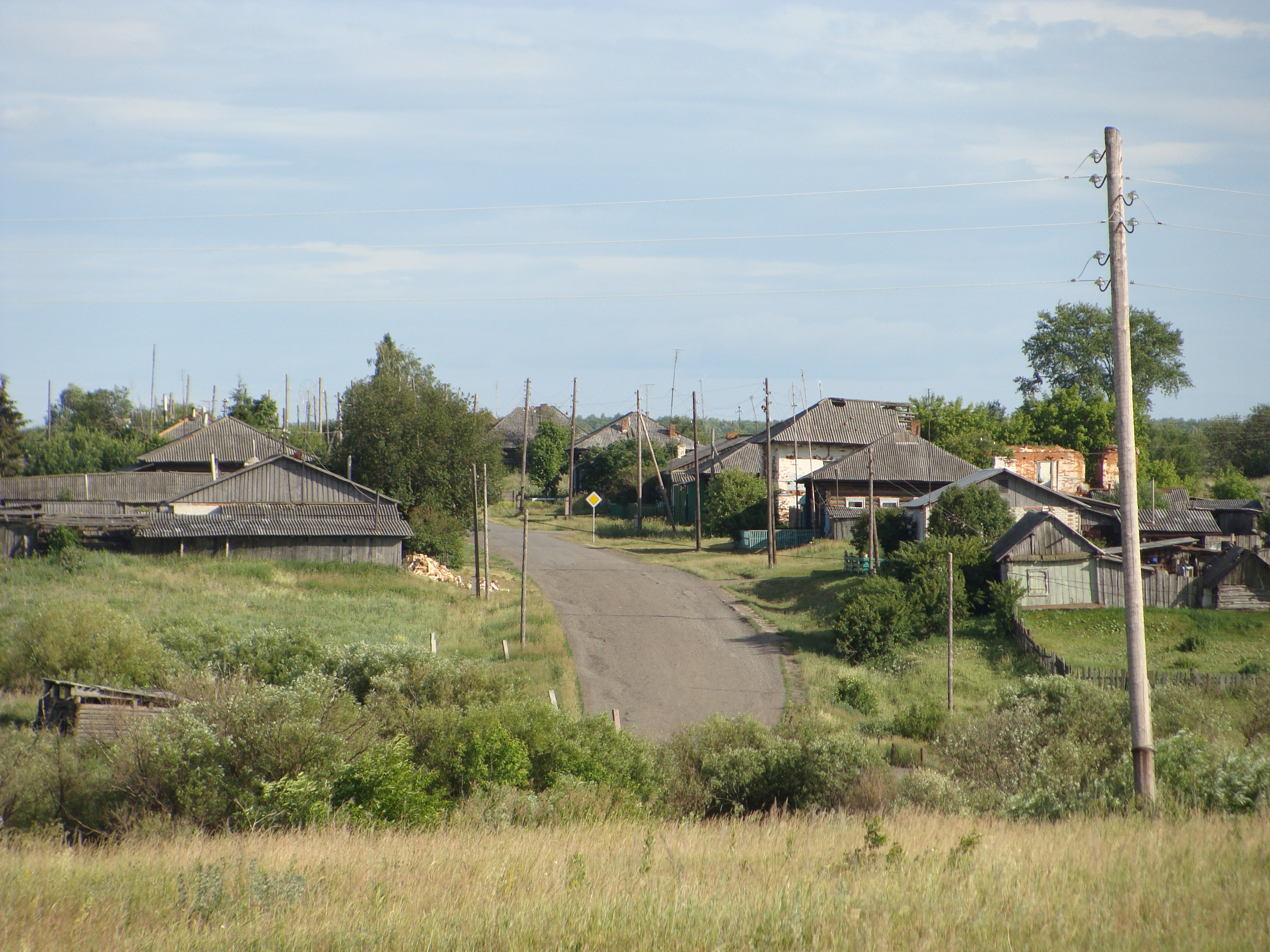 Street of Krasnopolyanskoye